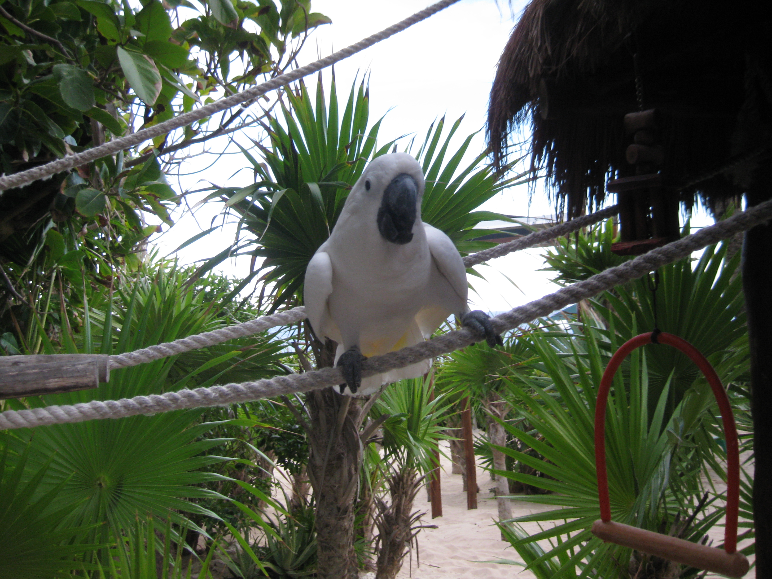 An Umbrella Cockatoo (also known as a White Cockatoo) at Coconuts Bar, Cozumel, Mexico.